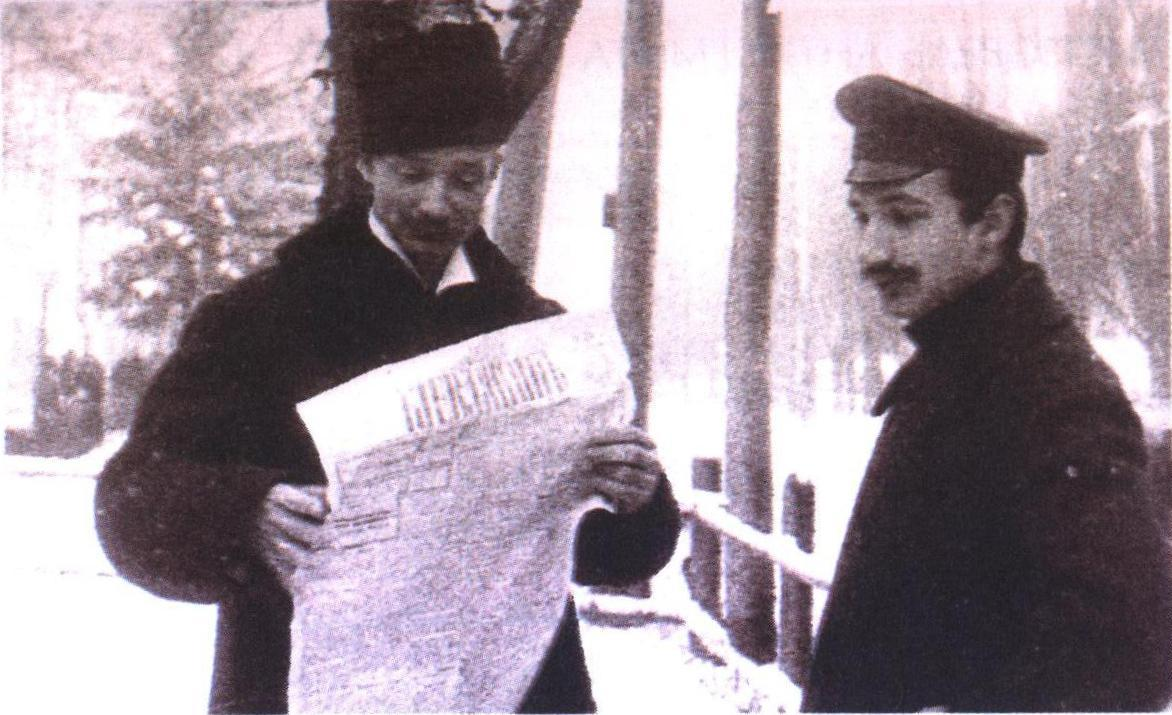 Shulgin with the employee at the time of arrival to the abdication of Nicholas II